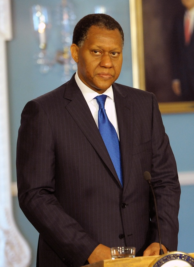 U.S. Secretary of State Hillary Rodham Clinton responds to a question at the joint press availability with Nigerian Foreign Minister Henry Odein Ajumogobia following their bilateral meeting at the U.S. Department of State in Washington, D.C., on August 5, 2010. [State Department photo/ Public Domain]